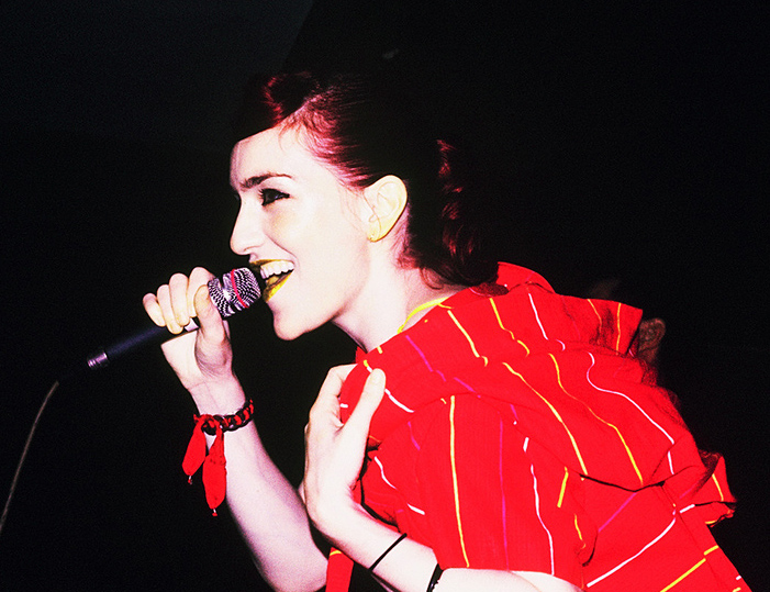 Tamara Barnett-Herrin at a Freeform Five gig, 93 Feet East, Brick Lane, London